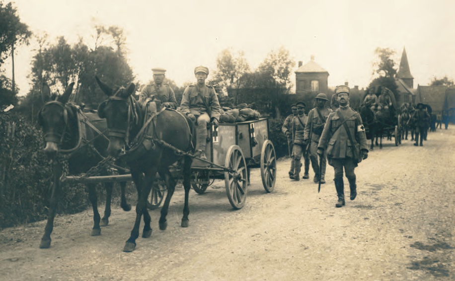 Medical services of the WWI Portuguese Expeditionary Corps.